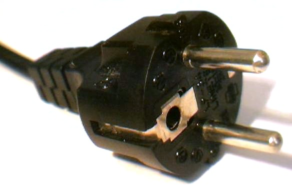 Schuko power plug, standard CEE 7/7, bought in Spain. This one is slightly unusual for this type of plug, in that the cable comes out from the back of it, allowing it to be yanked out. (Most plugs of this type have a cable coming out of the side.)